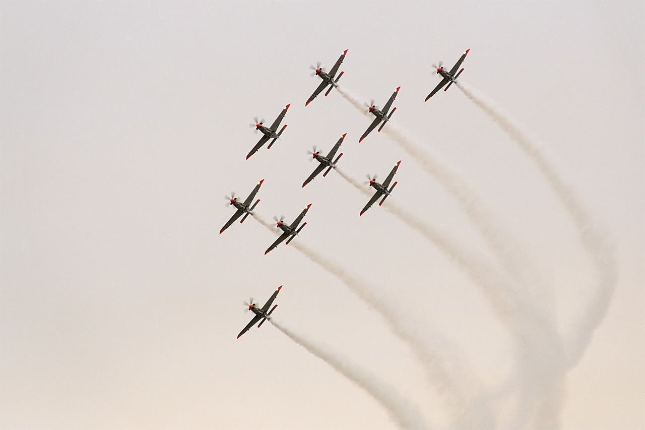 Polish Air Force's Orlik Aerobatic Team at Radom Air Show 2005. August 28th, 2005. Orlik Aerobatic Team flies PZL-130 Orlik trainer machines. Released under cc-by-sa 2.5 license.